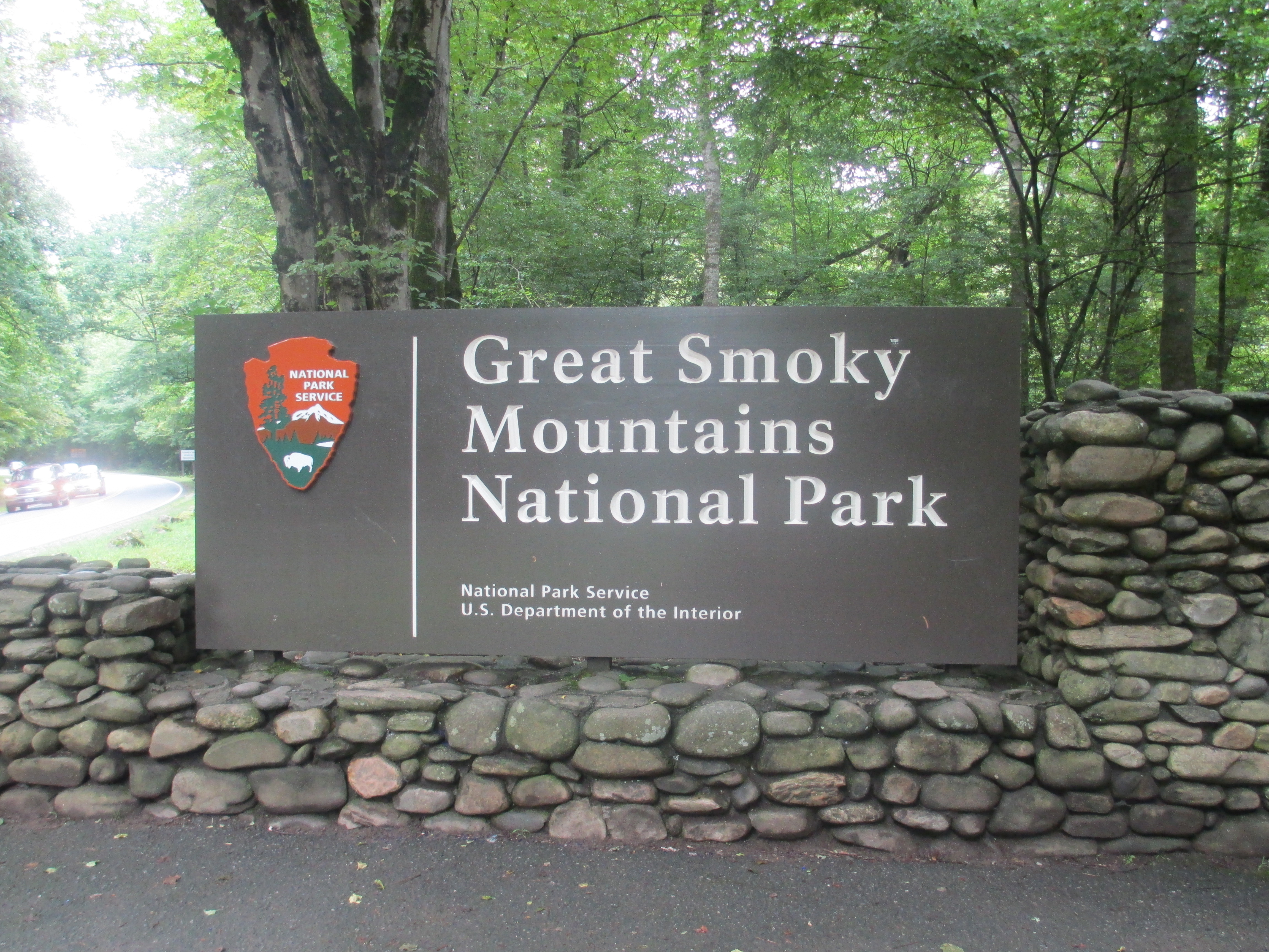 I took photo with Canon camera of Great Smoky Mountains National Park entrance sign.